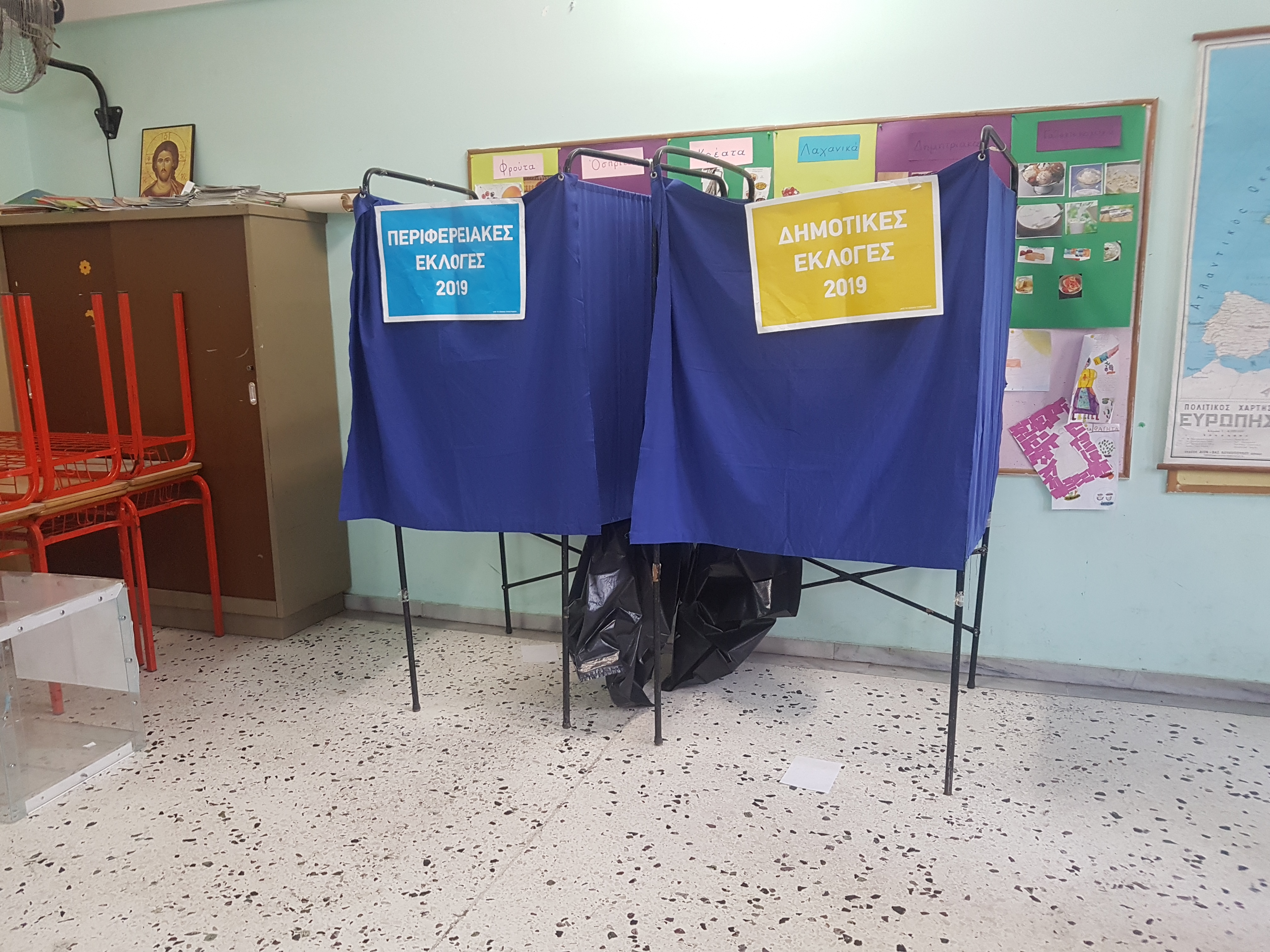 Election booths for the municipal and peripheral elections in Greece at the second round, 2/6/2019